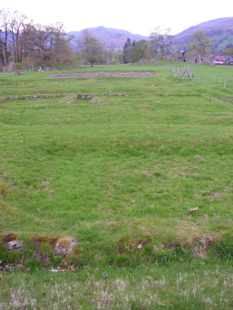 Galava Roman Fort, Ambleside. This is only part of the fort, which measured 135m by 90m. The first fort here was built by Agricola in 79AD, but this was superseded by a larger fort built by Trajan in 100, which was in use for about 300 years. For a better view of the stone foundations see [1]